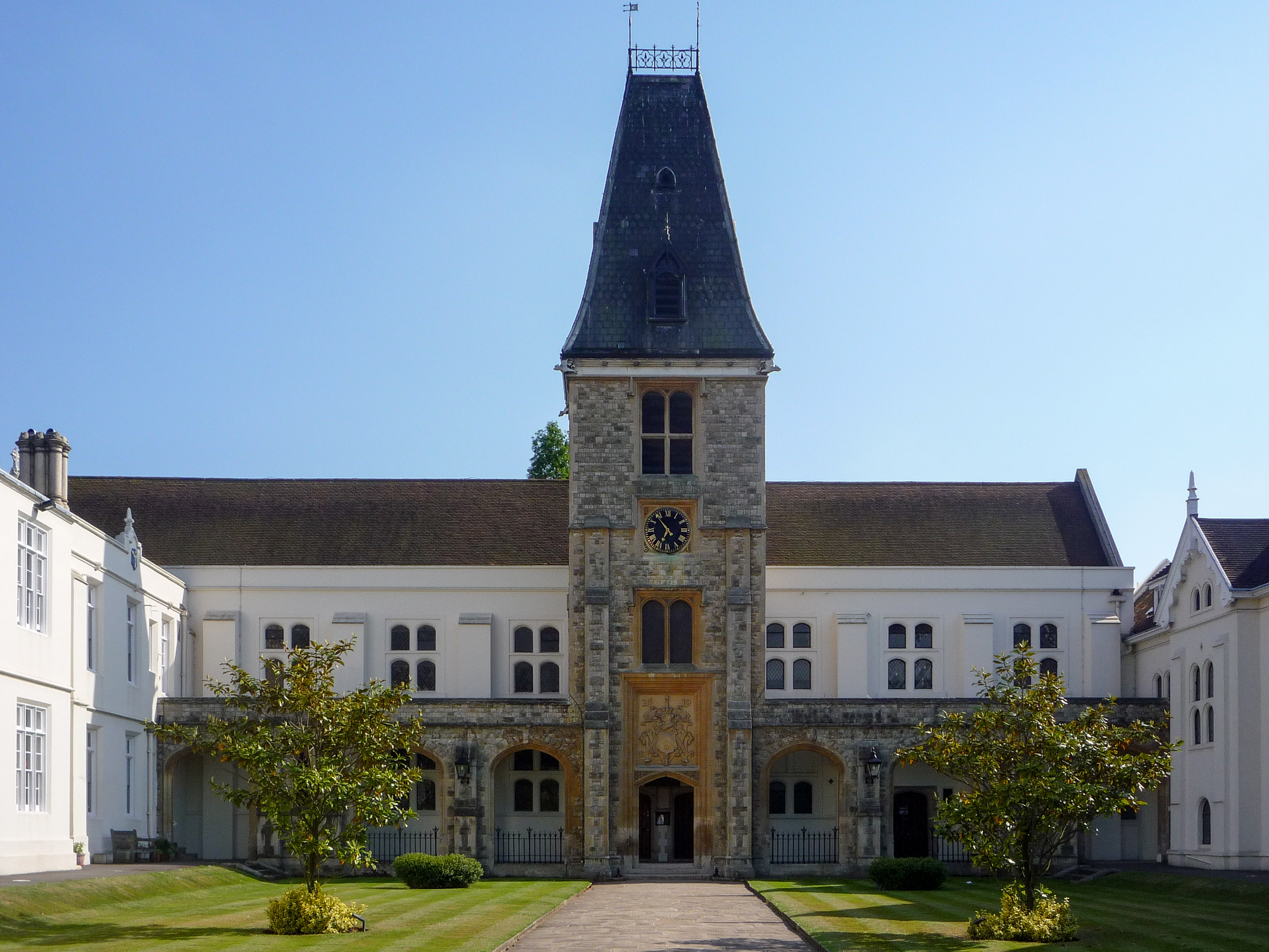 Christ's Chapel of God's Gift, Dulwich.